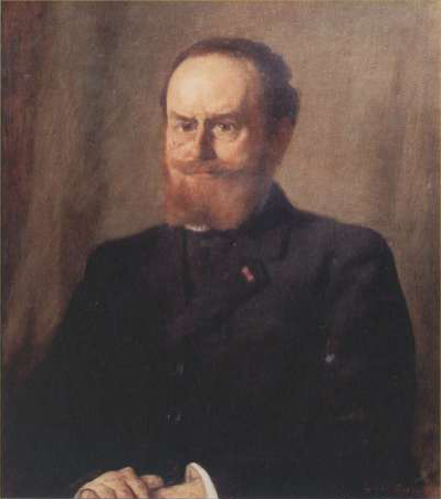 The portrait of Dutch organist Jean-Baptiste de Pauw (1852-1924)